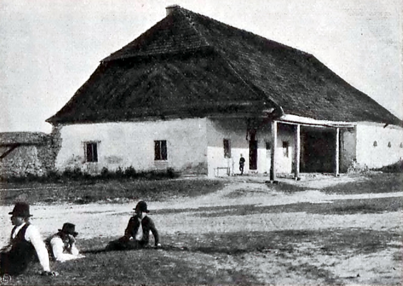 It's tavern in Miąsowa. It already doesn't exist.